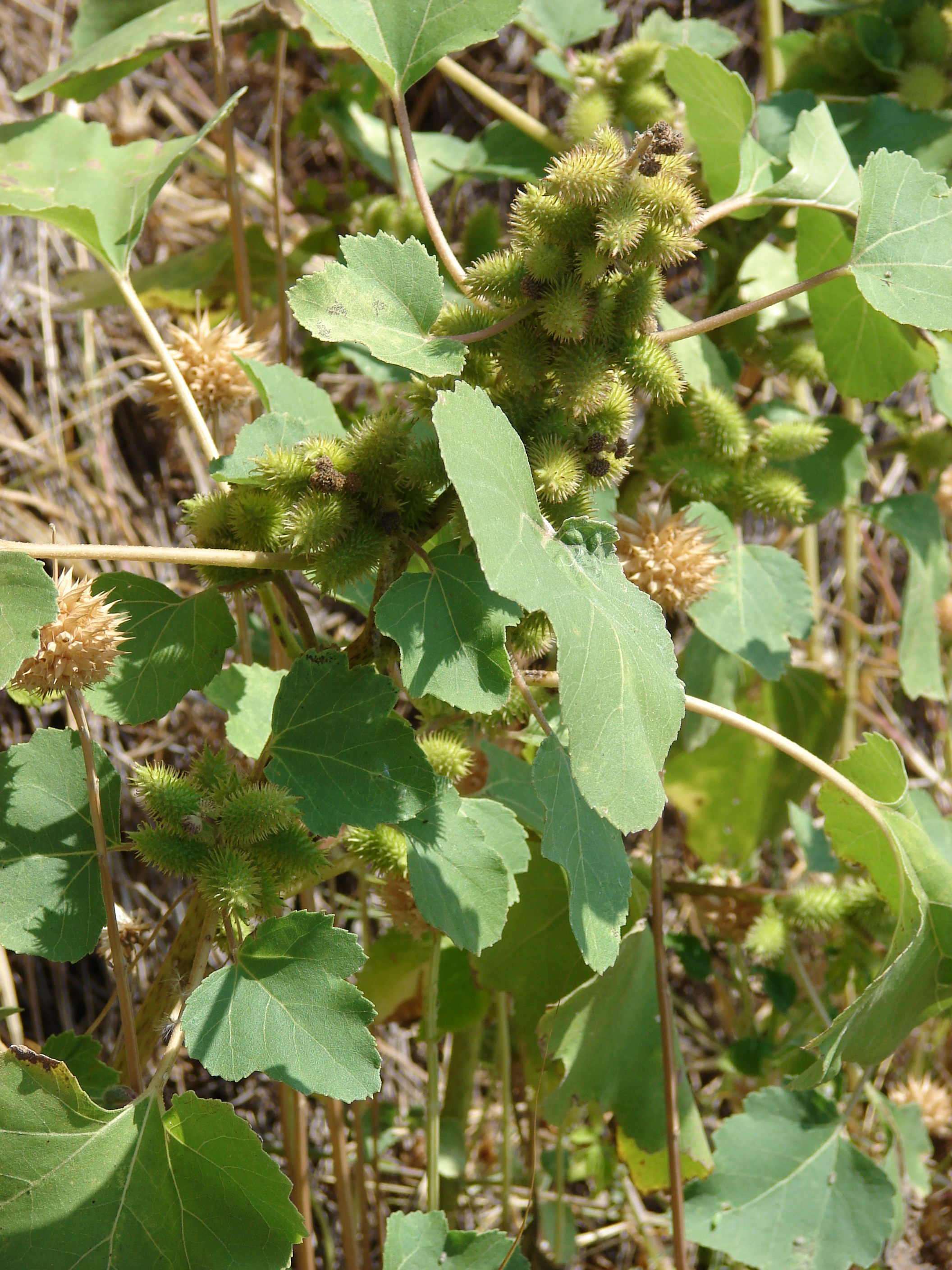 Xanthium strumarium var. canadense (with burs). Location: Maui, Launiupoko